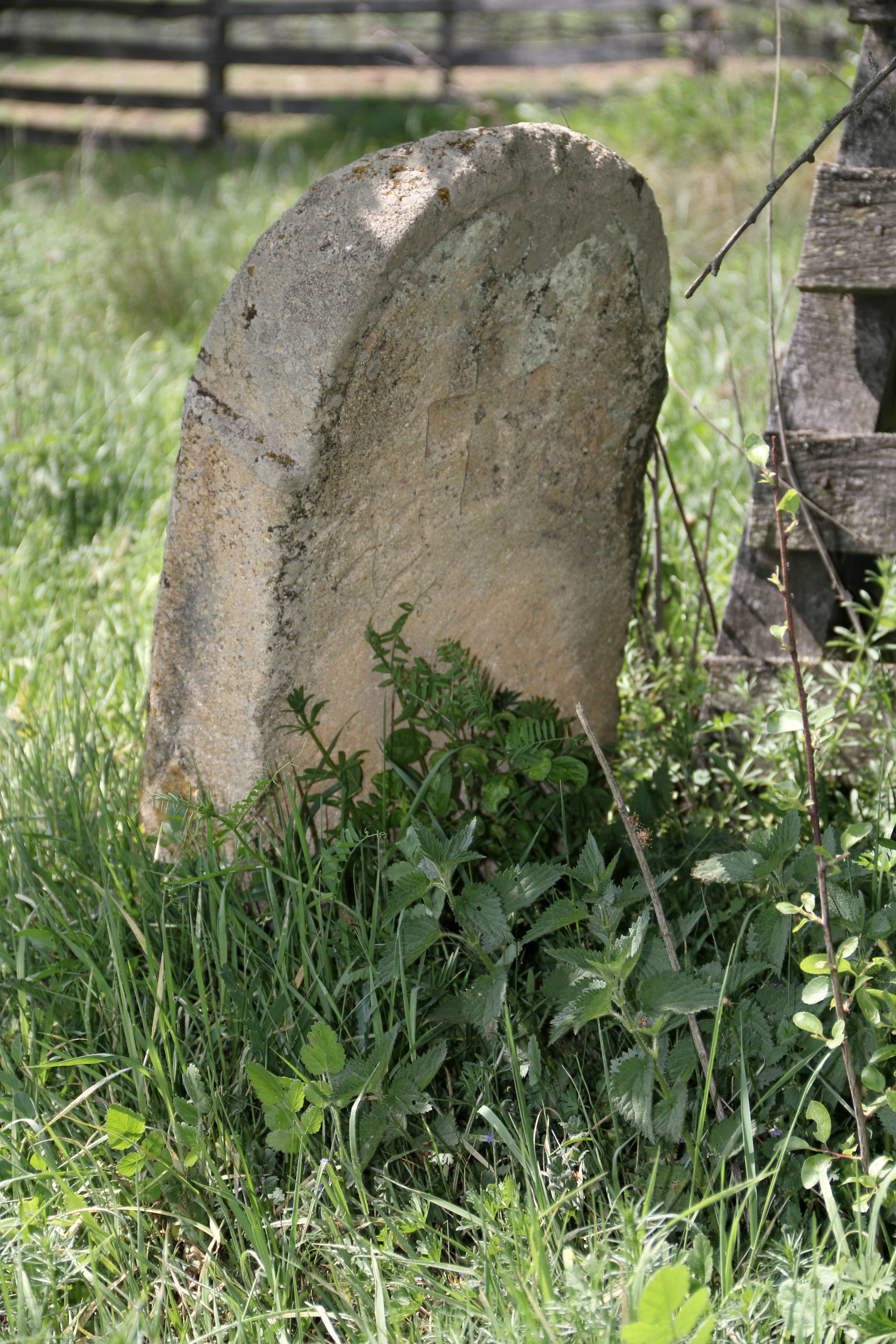 Tombstone at Galic in the village of Bersici (municipality of Gornji Milanovac), Serbia.